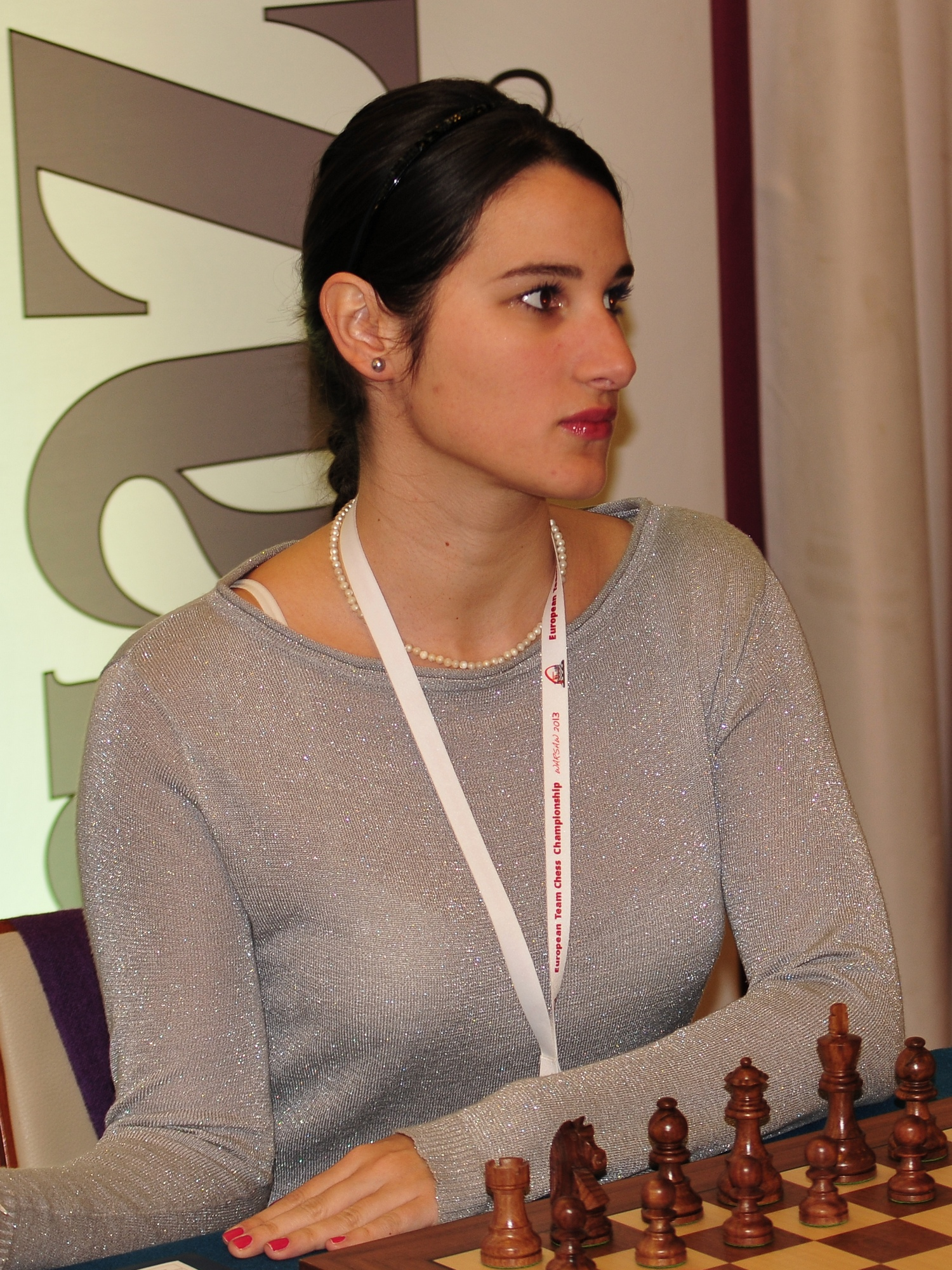 WGM Andjelija Stojanovic, European Chess Team Championship Warsaw 2013